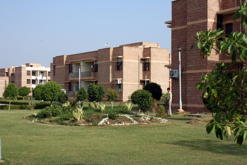 lhc complex